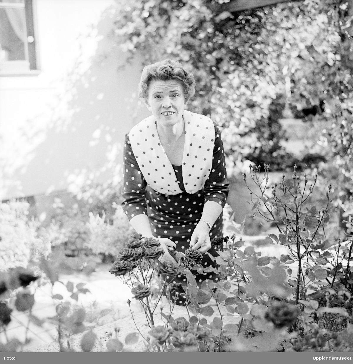 Editor Eva Wennerström-Hartman, Uppsala September 1960